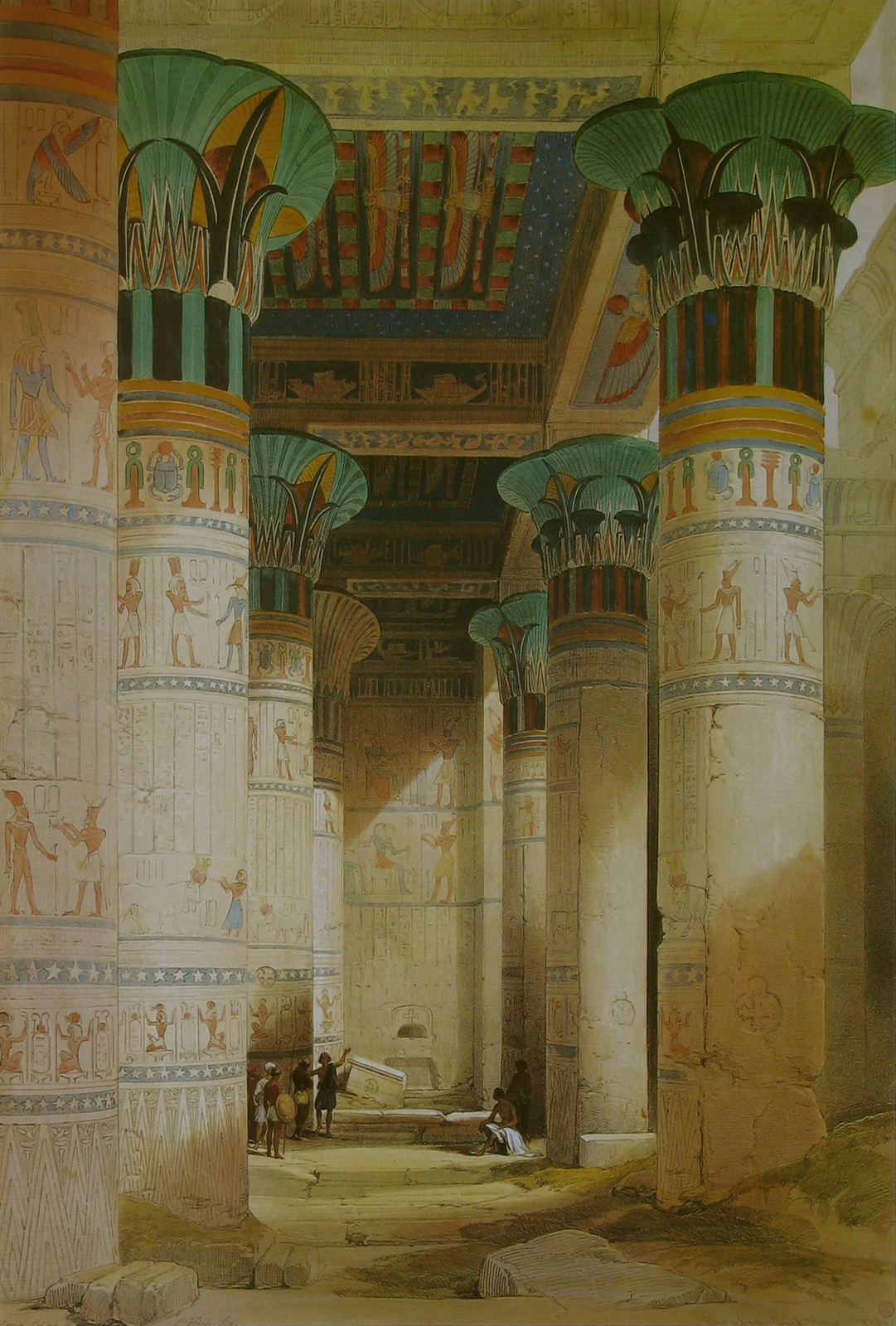 Temple of Isis on the Island of Philae/Egypt